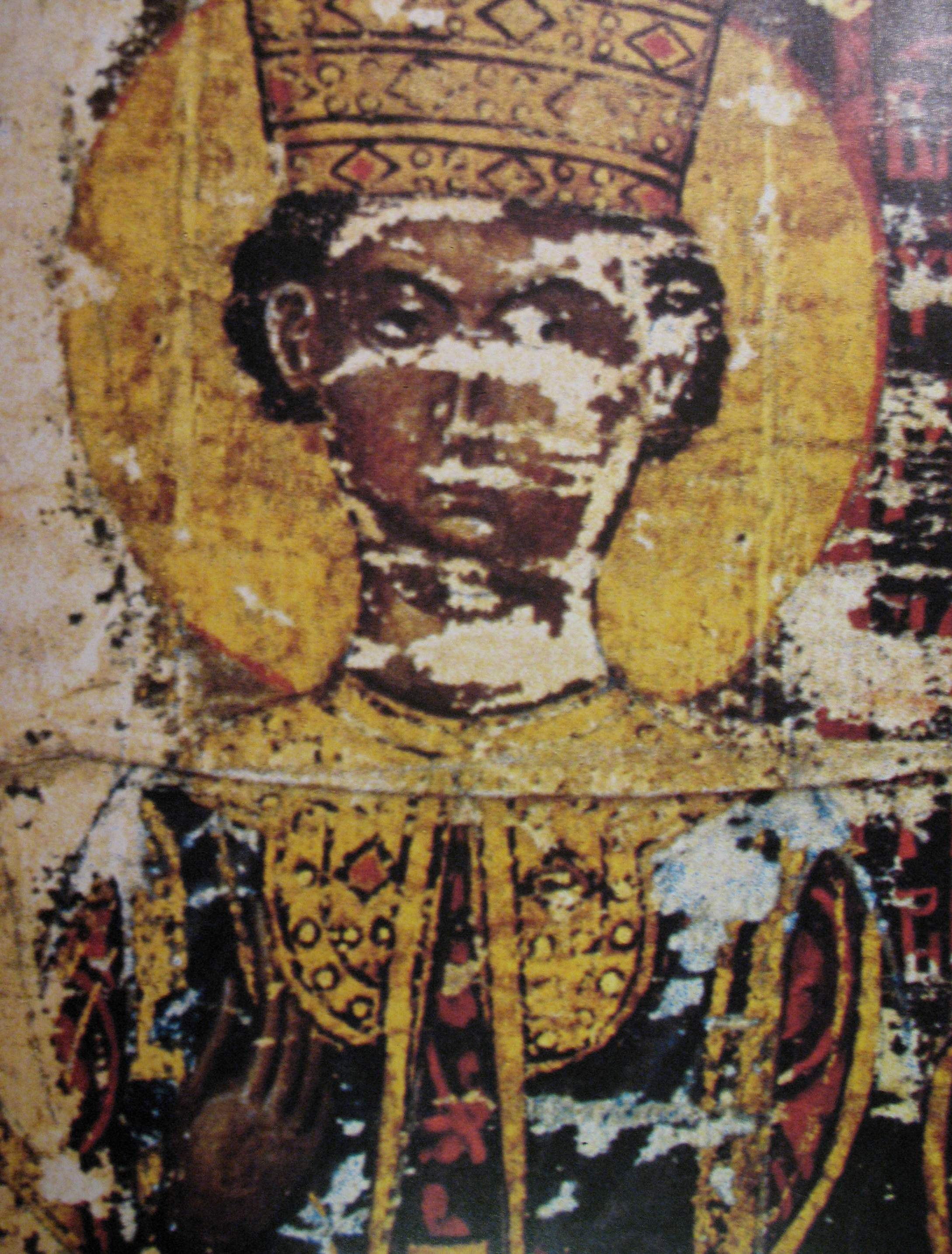 The ilustration of Irina Branković (Kantakouzenos) in Esphigmenou charter from 1429.